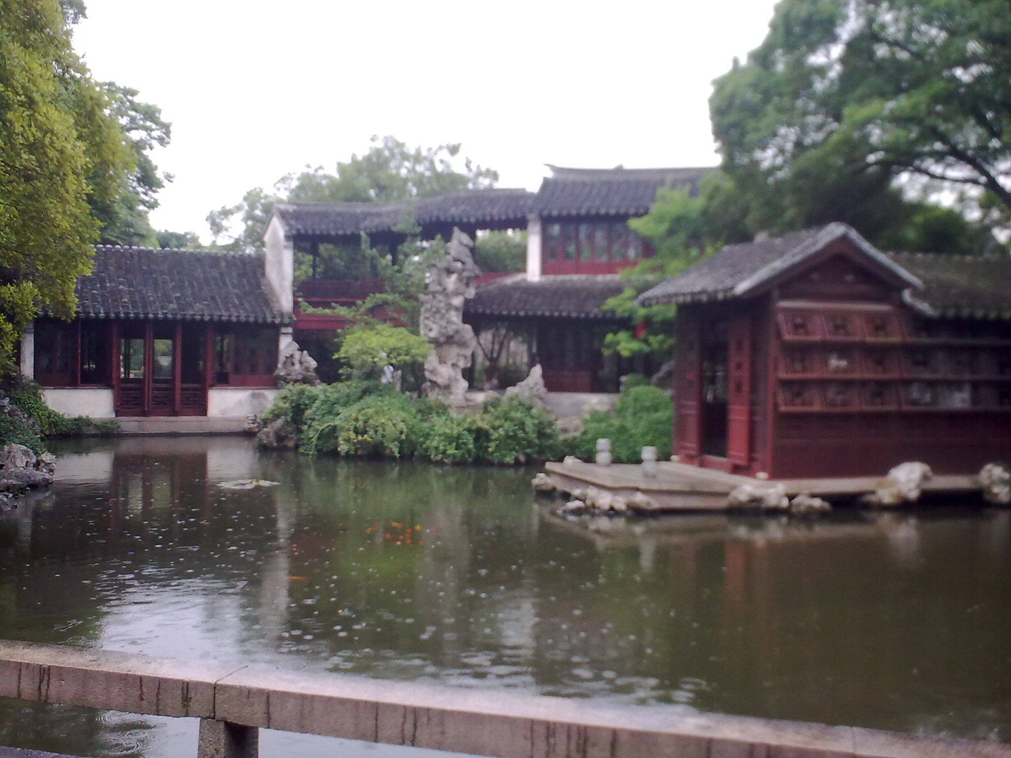 Title